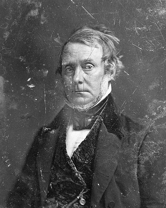 Henry Grinnell, head-and-shoulders portrait, three-quarters to the left . Henry Grinnell (1799-1874): Merchant; backer of polar expeditions; first President of the American Geographical Society.